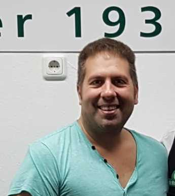 see file name